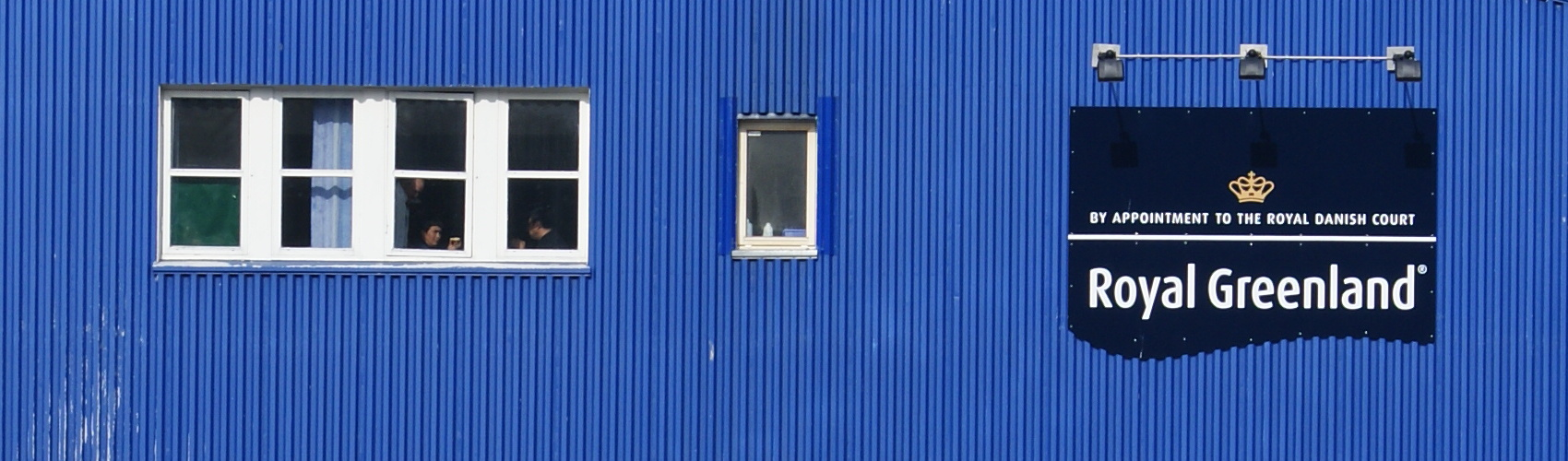 Royal Greenland logo on their fish processing factory and local base in Sisimiut port, Greenland.